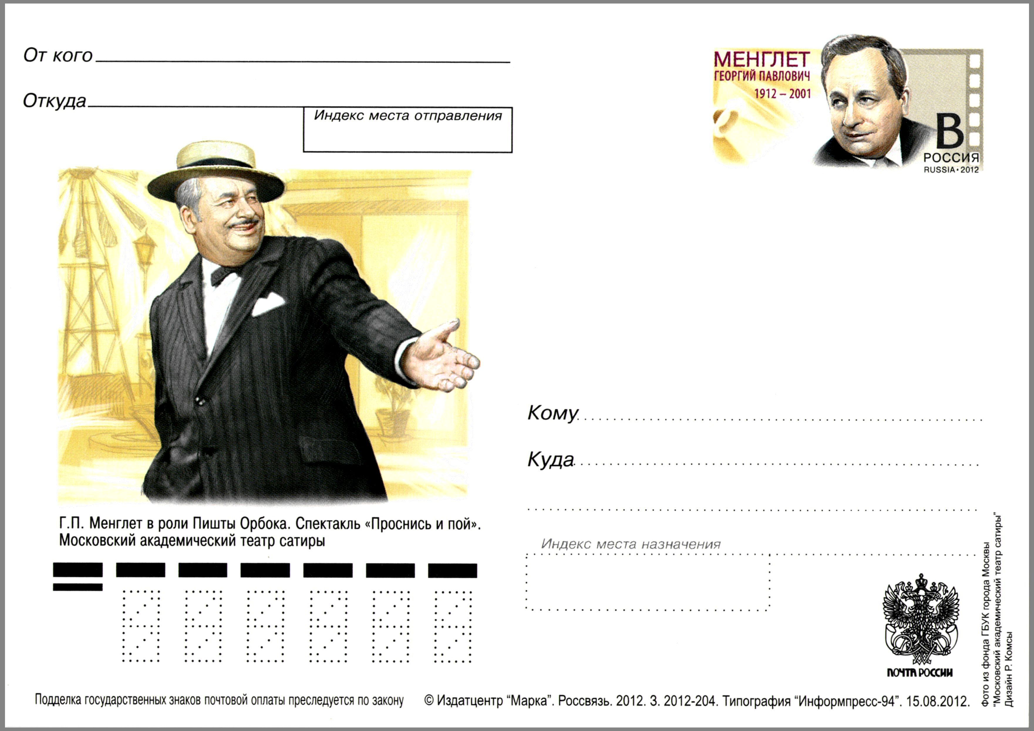 100th birth anniversary of the Soviet cinema and theater actor Georgy Menglet (1912–2001). The postal stationery card with the imprinted commemorative stamp, Russia, 3 September 2012, PTC Marka Catalogue No 236-окр/12, Michel No PSo226. Coated paper. Offset printing. Size of the postal card: 105×148 mm. Print run: 12,000. The commemorative non-denominated stamp “Letter B” (for domestic postal cards): the portrait of Georgy Menglet. The illustration: Georgy Menglet as Pishta Obrok in the play Wake Up and Sing by the Hungarian playwright Miklós Gyárfás (Moscow Theater of Satire, staged by Mark Zakharov and Alexander Schirwindt, 1970).